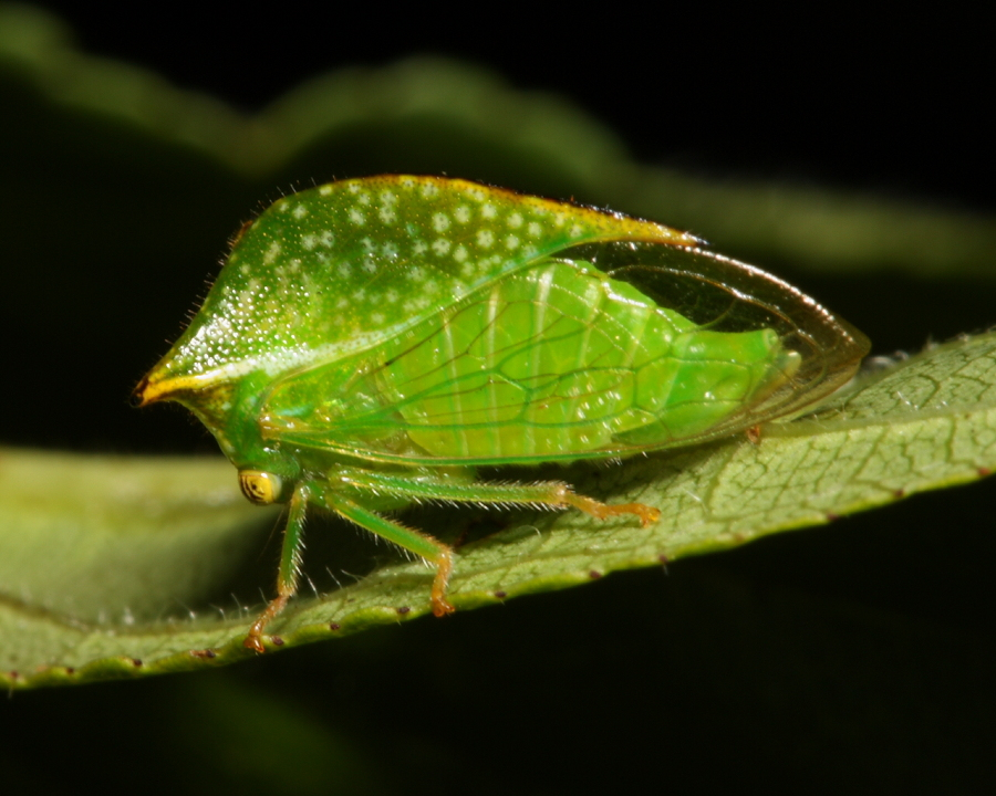 Live adult treehopper (family Membracidae) Ceresa taurina photographed at Blackwell Forest Preserve, DuPage County, Illinois.